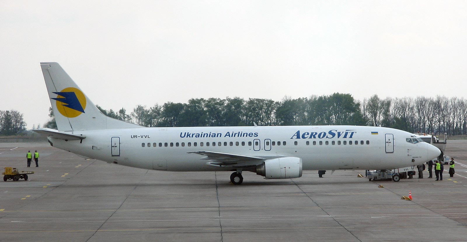 Aerosvit Boeing 737 (UR-VVL) at Boryspil Airport, Kyiv